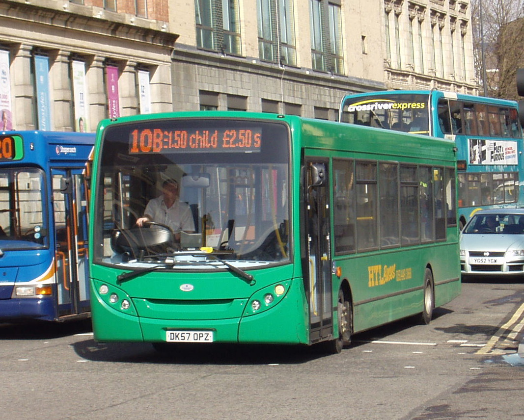 HTL Buses Alexander Dennis Enviro200 Dart single-deck bus in Liverpool